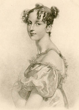 Countess Dorothea Lieven (1811).